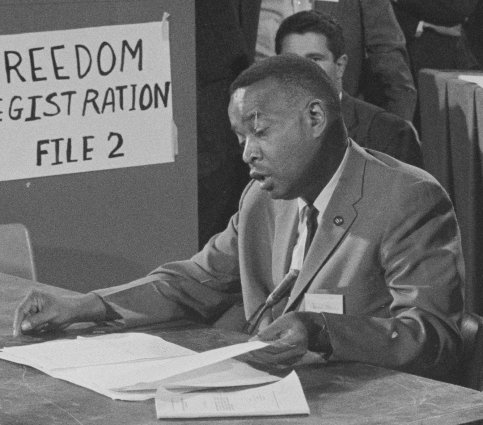 Aaron Henry, chair of the Mississippi Freedom Democratic Party delegation, reading from a document while seated before the Credentials Committee at the 1964 Democratic National Convention, Atlantic City, New Jersey